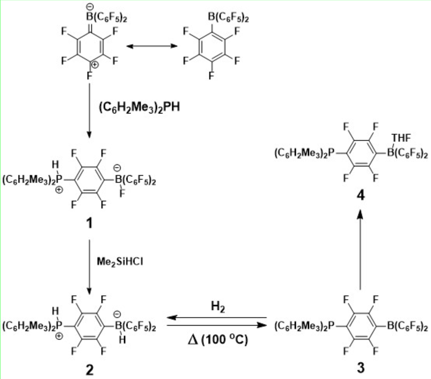 Synthetic methodology for the first FLP, (1) reported by Stephan et. al. formed from dimesityl phosphine and tris(pentafluorophenyl)borane. After reaction with Me2SiHCl to give (C6H2Me3)2PH(C6F4)BH(C6F5)2 (2), the resulting dihydride will thermally decompose to release hydrogen gas and the neutral compound 3. Using THF as a donor solvent afforded white colourless crystals of the adduct molecule 4.